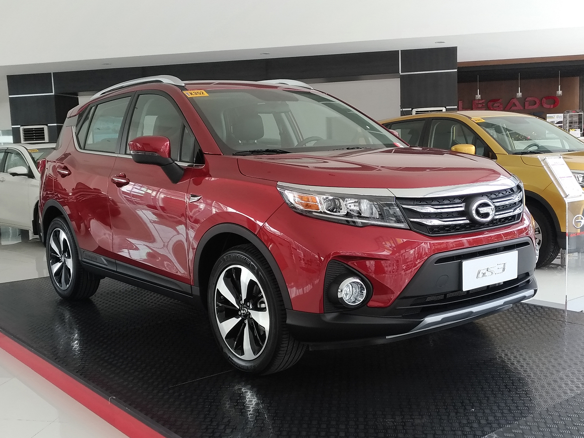 2020 GAC GS3 200T. Photographed at GAC Motor Pasig, Metro Manila, Philippines.